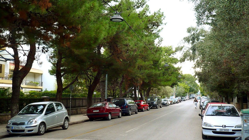 The above picture depicts the Analipseos Streat, characteristic sample of the wide roads at the center of Vrilissia .